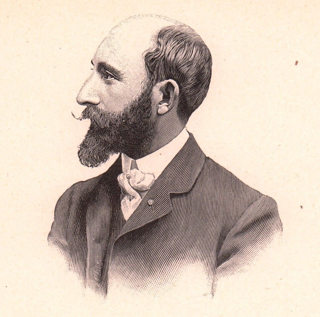 French painter and illustrator Jules Alexandre Grün (1868-1934)